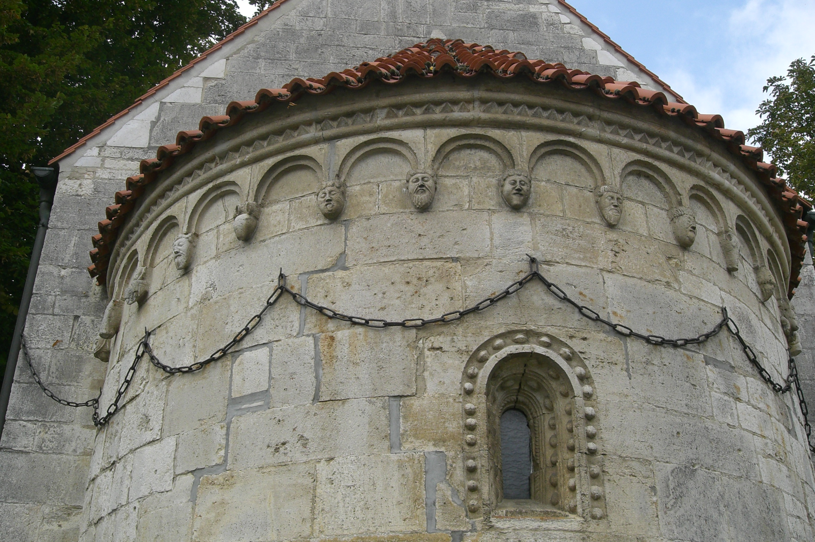 Saint Leonard church in Tholbath near Theißing seen from East. Romanic, sanctified in 1190. Apsis on the eastside with 15 human and animal heads, iron chain and romanic window.